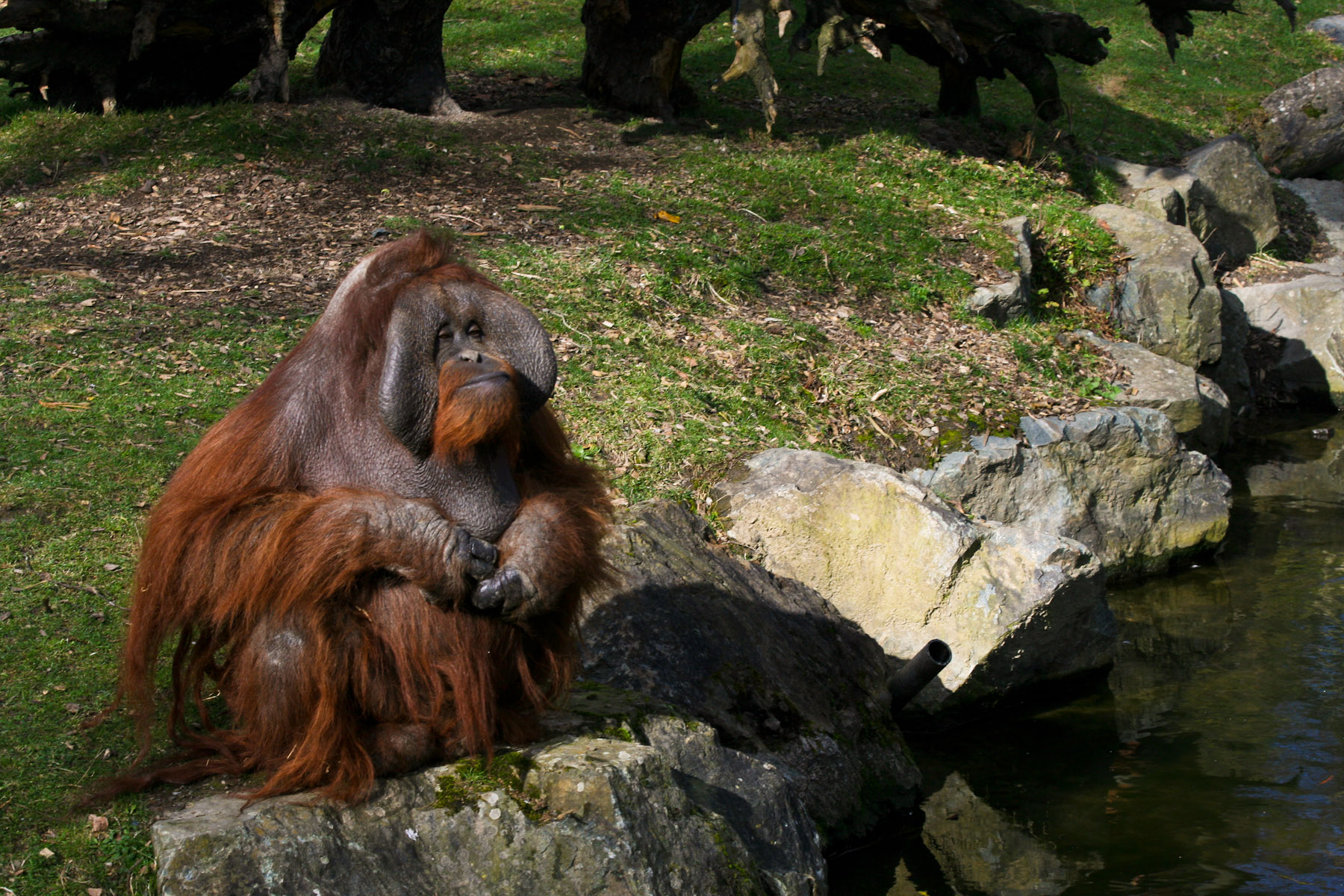 Orangutang at Dublin Zoo